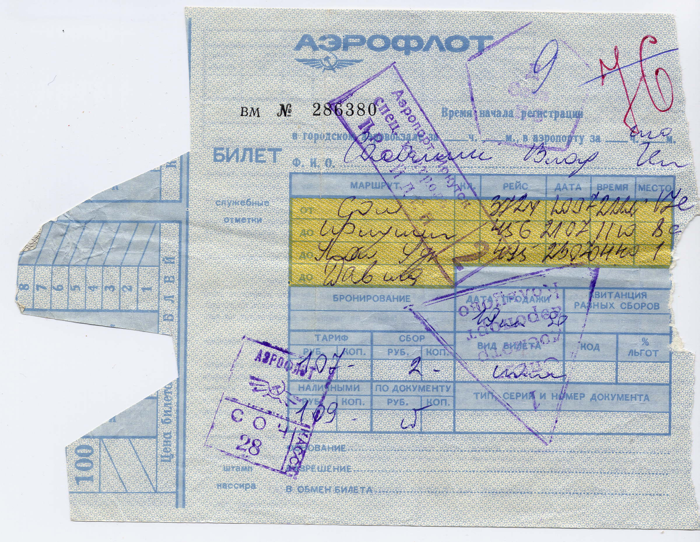 Aeroflot aircompanys' soviet times ticket